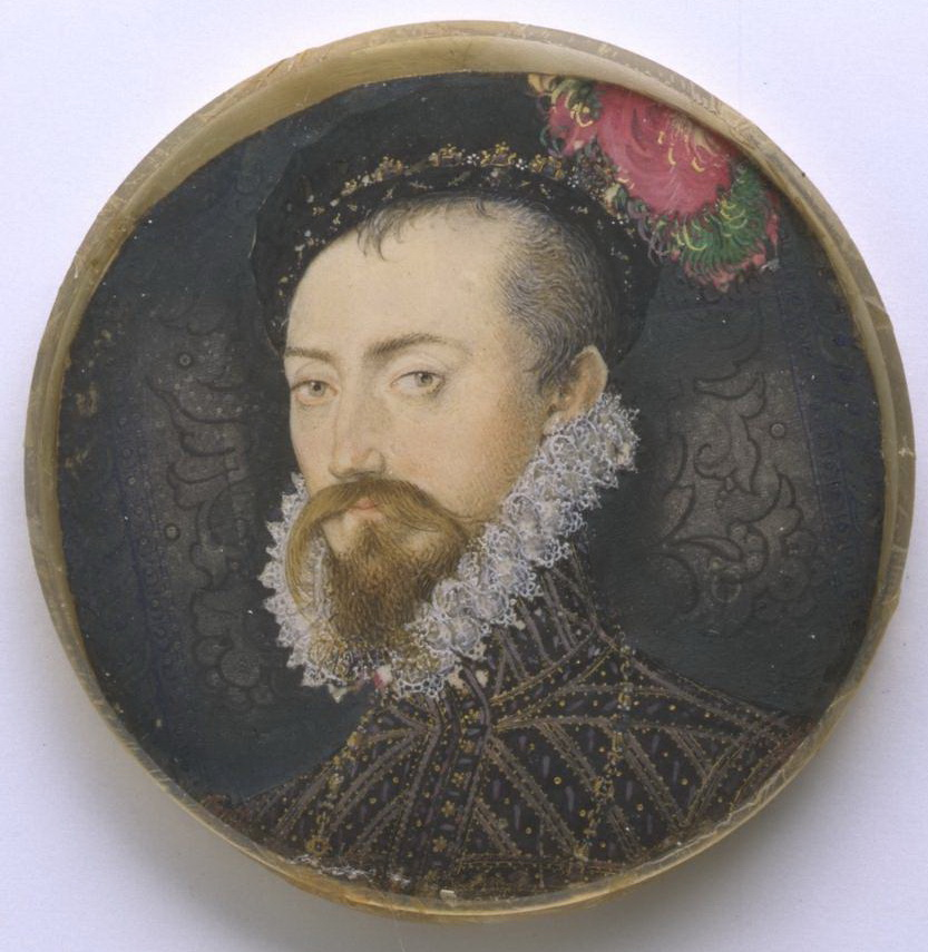 Portrait of Robert Dudley, Earl of Leicester (1532-1588)